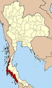 Map of Thailand showing the extent for the Monthon Phuket as of 1915.